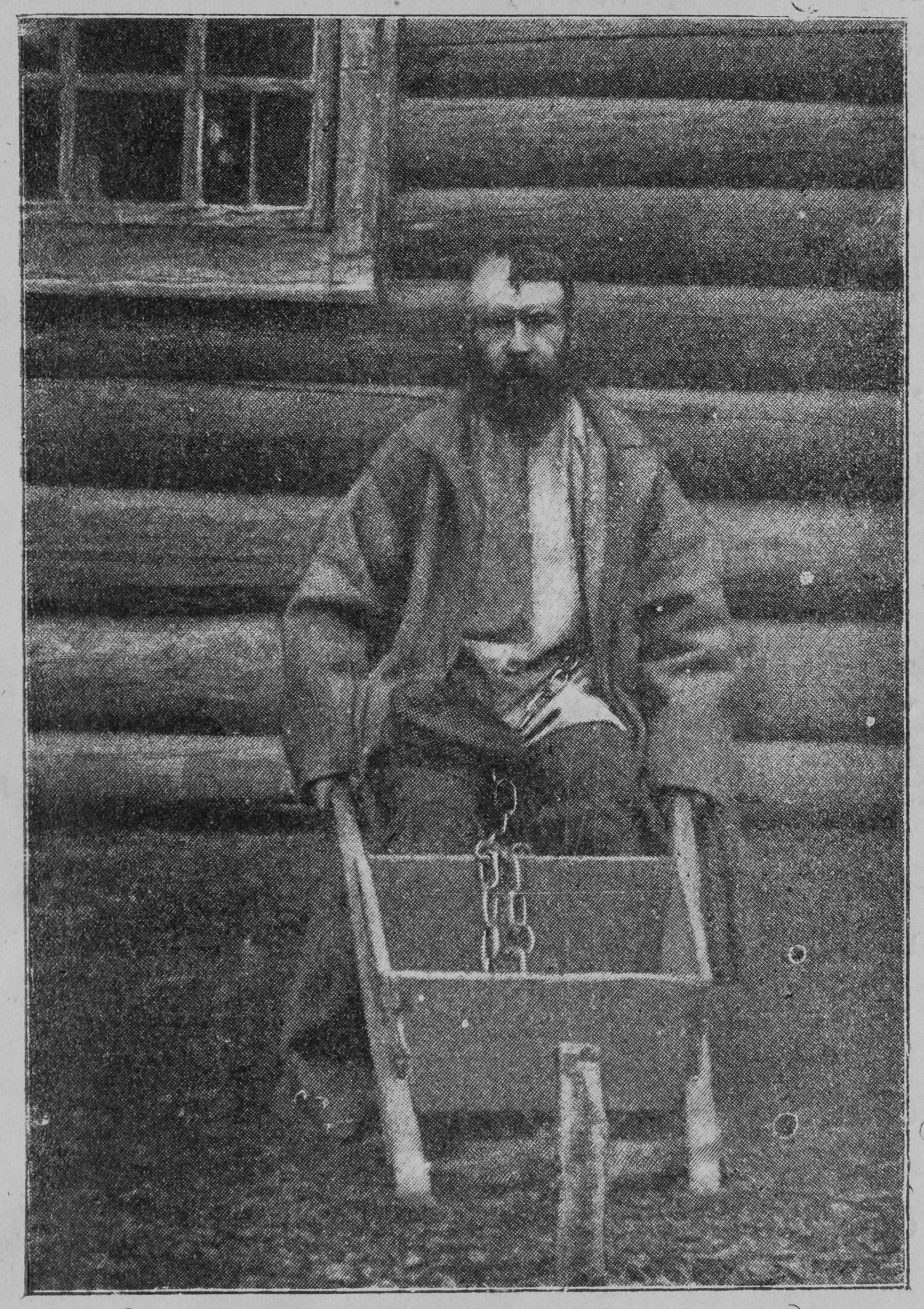 Wheelbarrow carrier, chained to wheelbarrow for two years